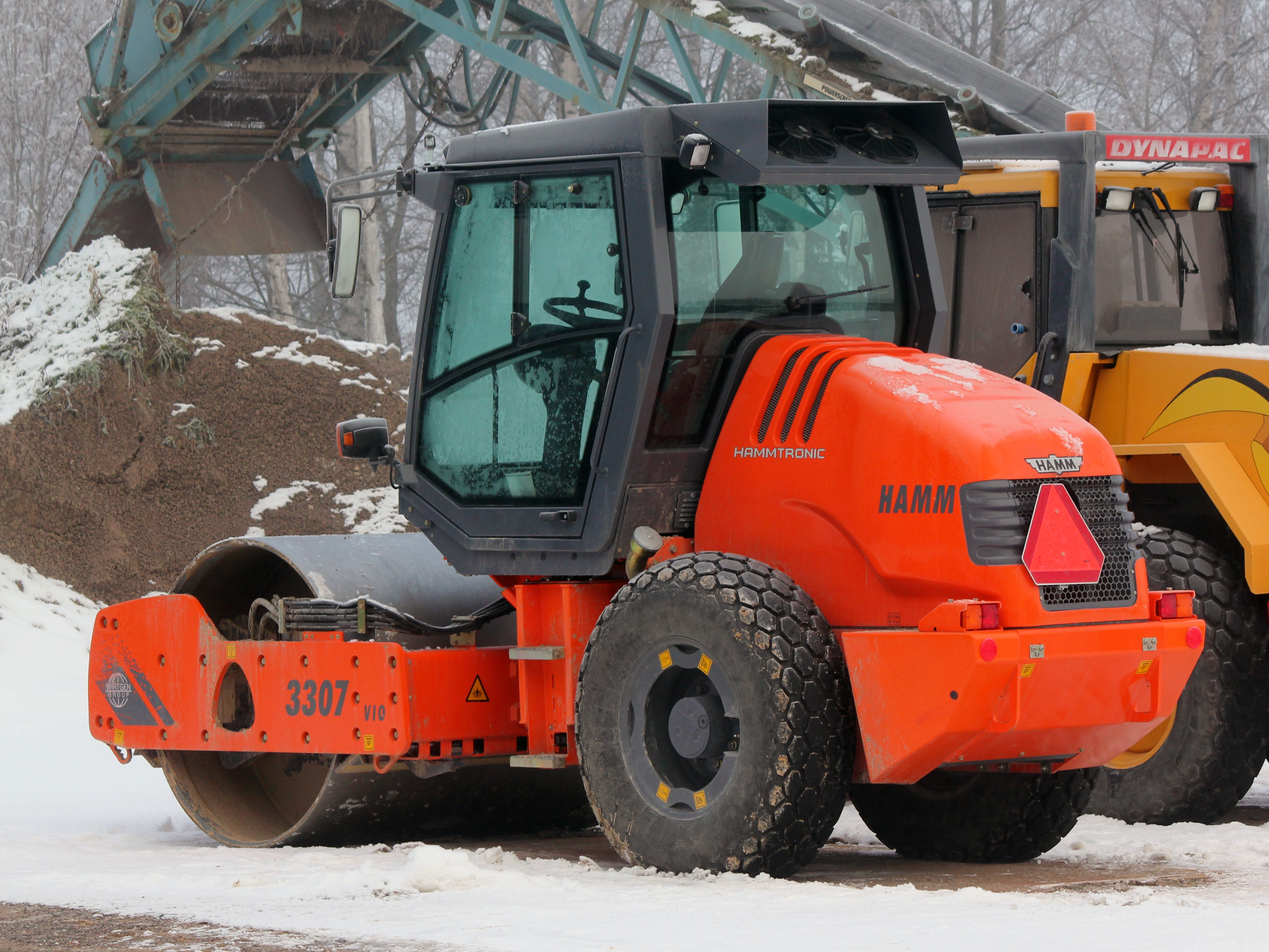 Hamm 3307 road roller, Dynapac CA 151 road roller in background. Avesta, Sweden.